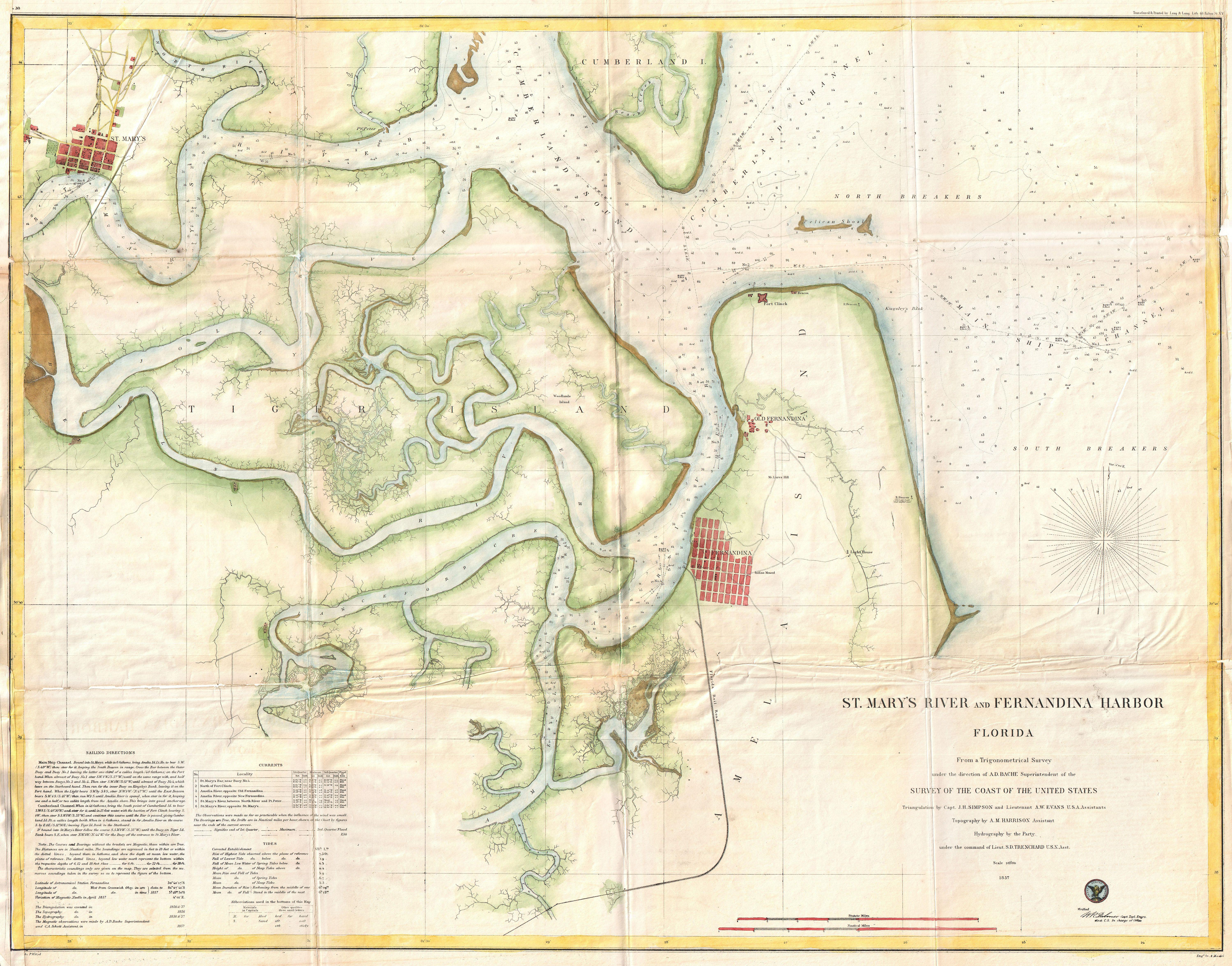 An attractive hand colored 1857 U.S. Coast Survey sea chart or map depicting St. Mary’s River and Fernandina Harbor in Northern Florida. Details the winding course of the St. Mary River Delta from St. Mary’s to the Pacific. Shows a grid plan of the cities of St. Mary’s and Fernandina. Notes Fort Clinch on Amelia Island as well as the S. Beacon lighthouse and the Florida Rail Road. Inland regions are depicted in considerable detail, down to individual buildings. In addition to inland details, this chart contains a wealth of practical information for the mariner from oceanic depths, to harbors and navigation tips on important channels. The hand color work on this beautiful map is exceptionally well done. This map was created under the direction of A. D. Bache, Superintendent of the Survey of the Coast of the United States and one of the most influential American cartographers of the 19th century.